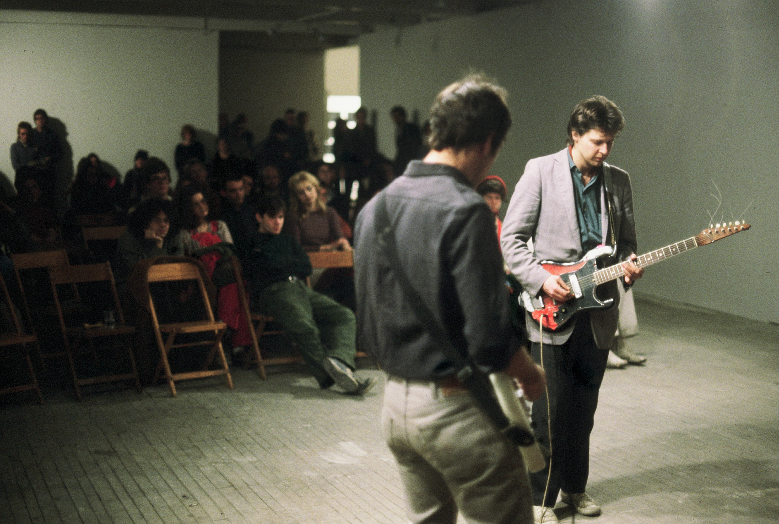 Glenn Branca performing at Hallwalls in the 1980's. Courtesy of Hallwalls' archive.